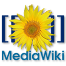 MediaWiki logo